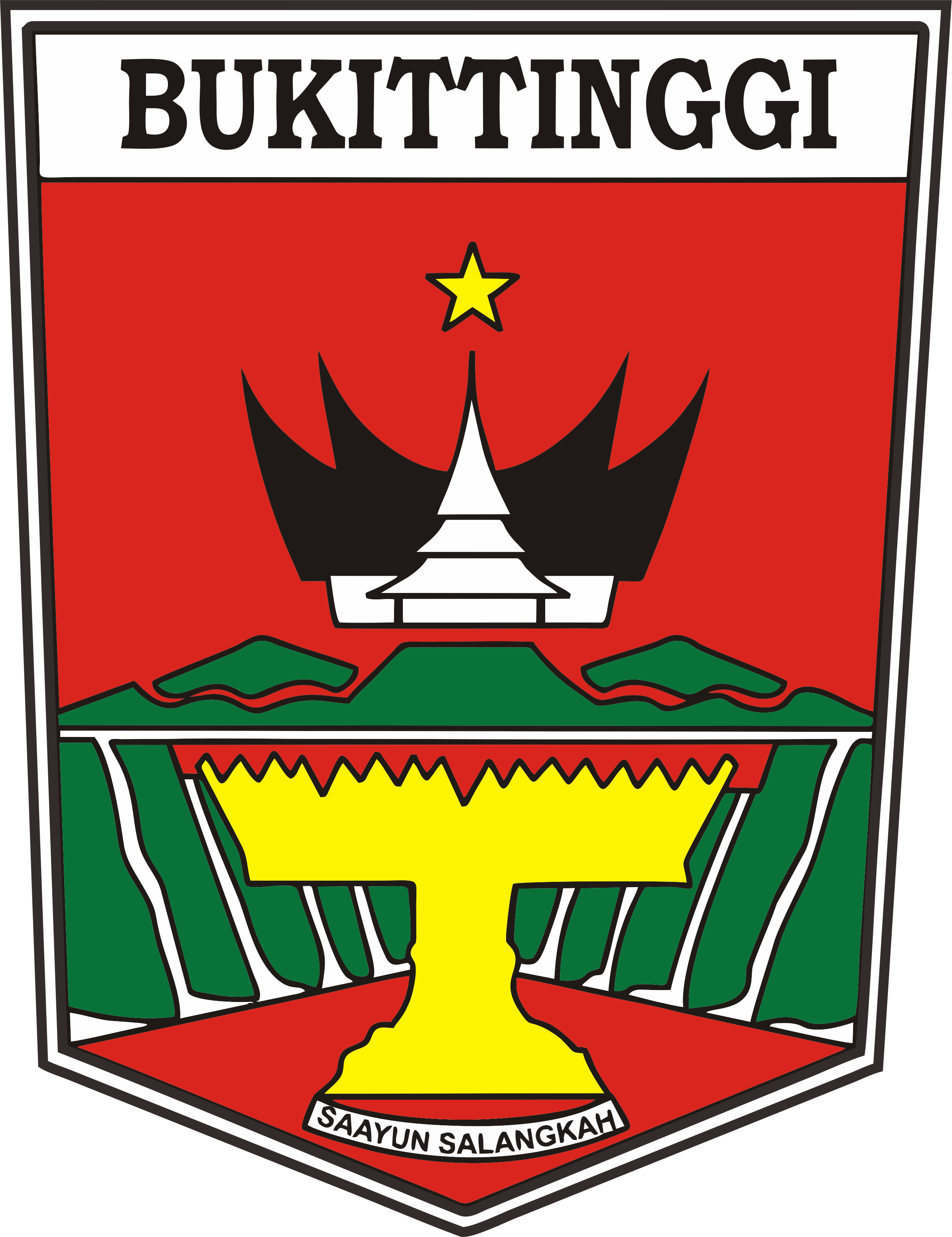 Lambang (Coat of Arms) of Kota (City) Bukittinggi, Provinsi Sumatera Barat (West Sumatra Province), Indonesia